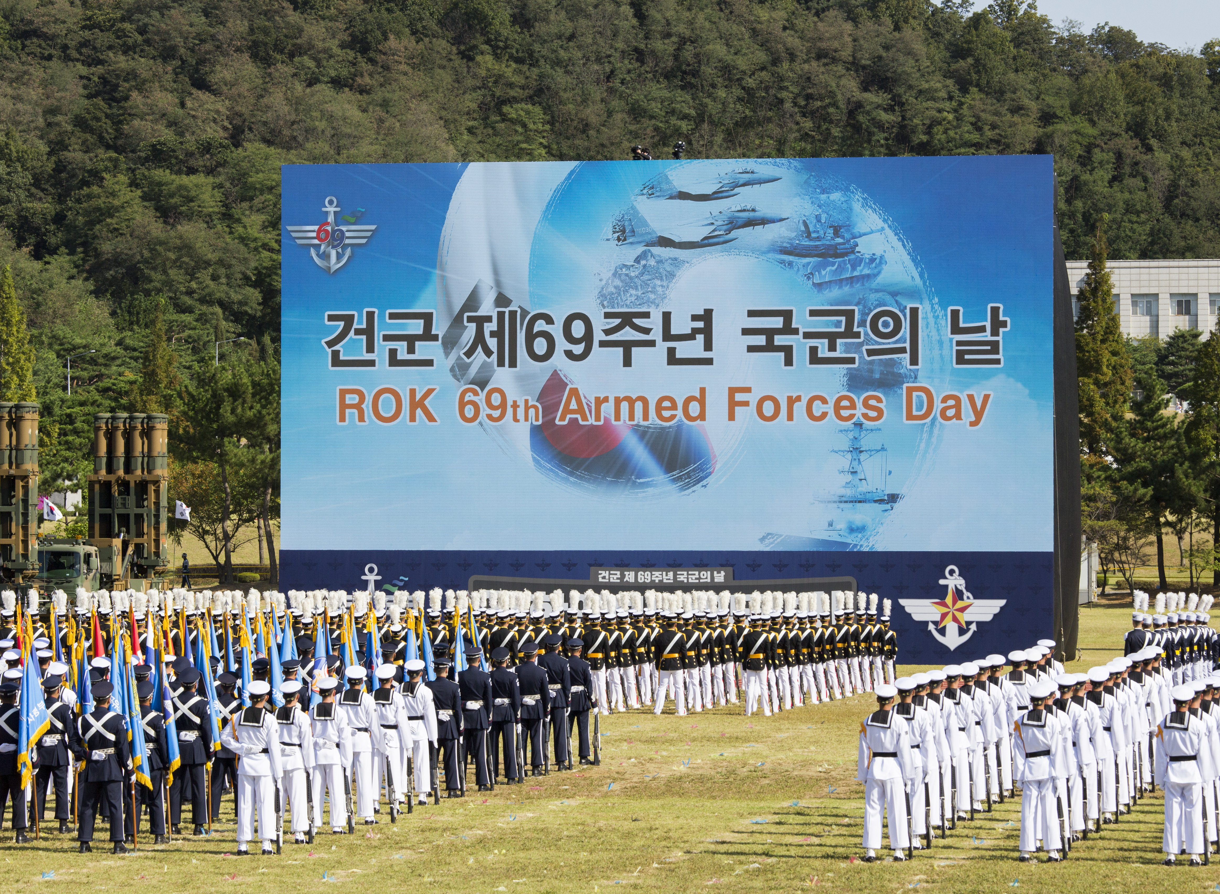 170928-A-CD114-0027